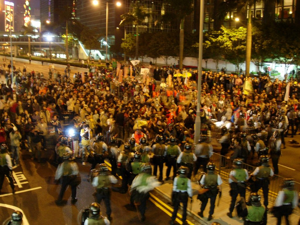 Protest zones were setup in Wan Chai for the international 2005 WTO conference. Protesters occupied Gloucester Road at the 2005 WTO conference.